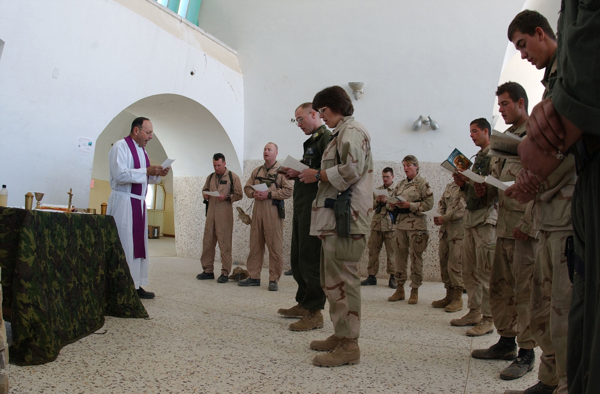 Kandahar, Afghanistan (Dec. 23, 2001) -- U.S. navy chaplain commader Joseph Scordo of Pleasantville, NY, celebrates Catholic mass for U.S. military personnel at a forward operating base in Kandahar, Afghanistan. U.S. military personnel are in Afghanistan conducting missions in support Operation Enduring Freedom.